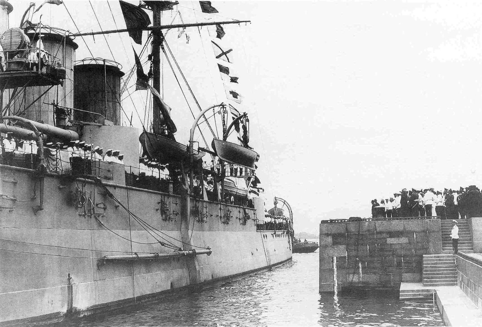 Arimoured cruiser Ryurik.